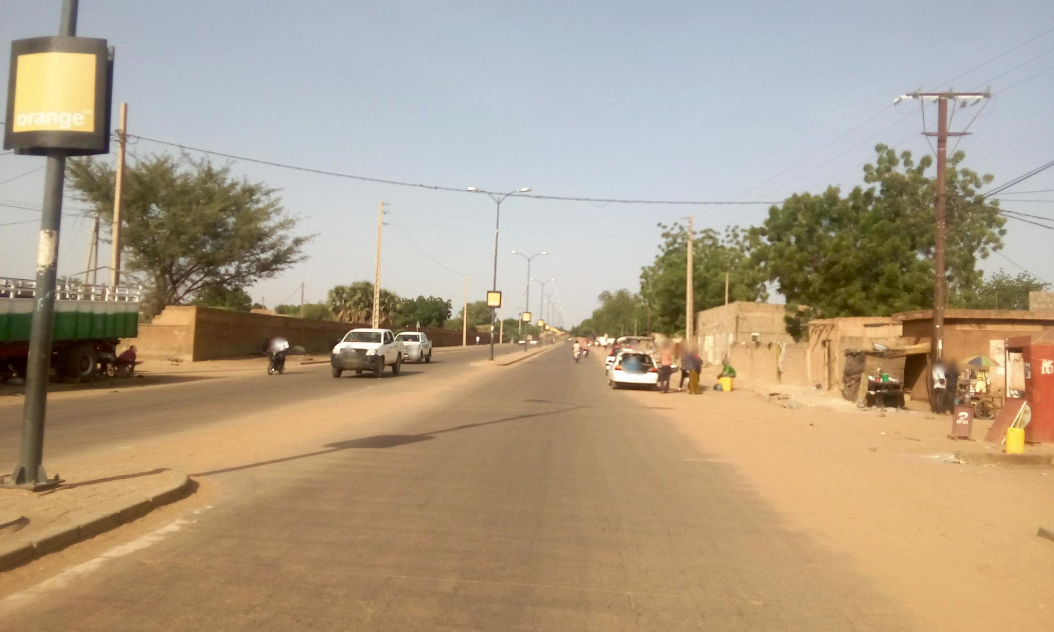 Avenue des Armées, Gamkalley Sébanguey, Niamey.